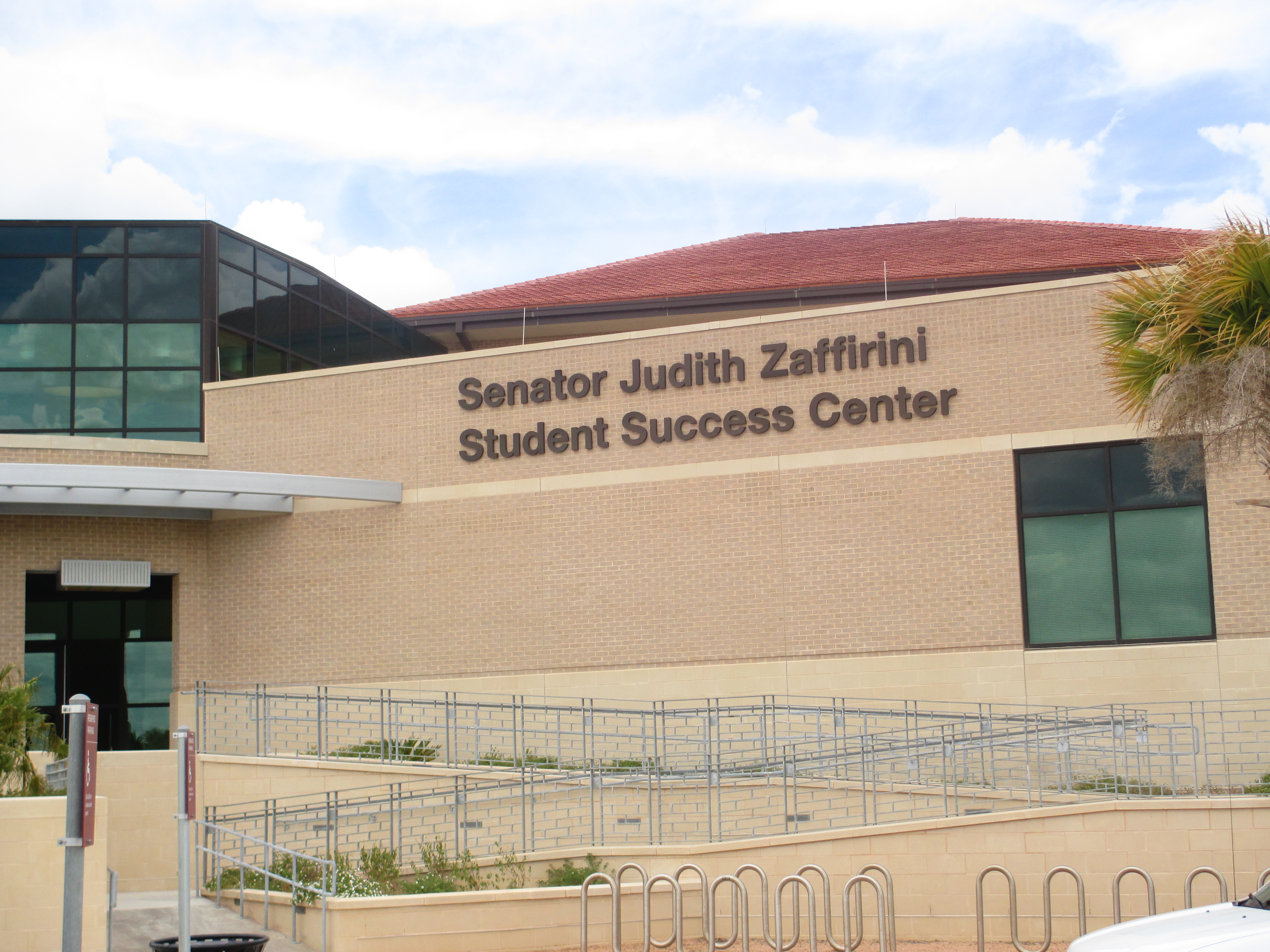 I took photo with Canon camera at Texas A&M International University in Laredo, TX.